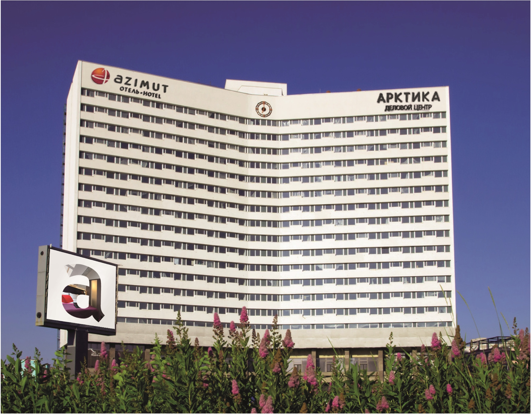 Azimut Hotel Murmansk. Azimut Hotels chains